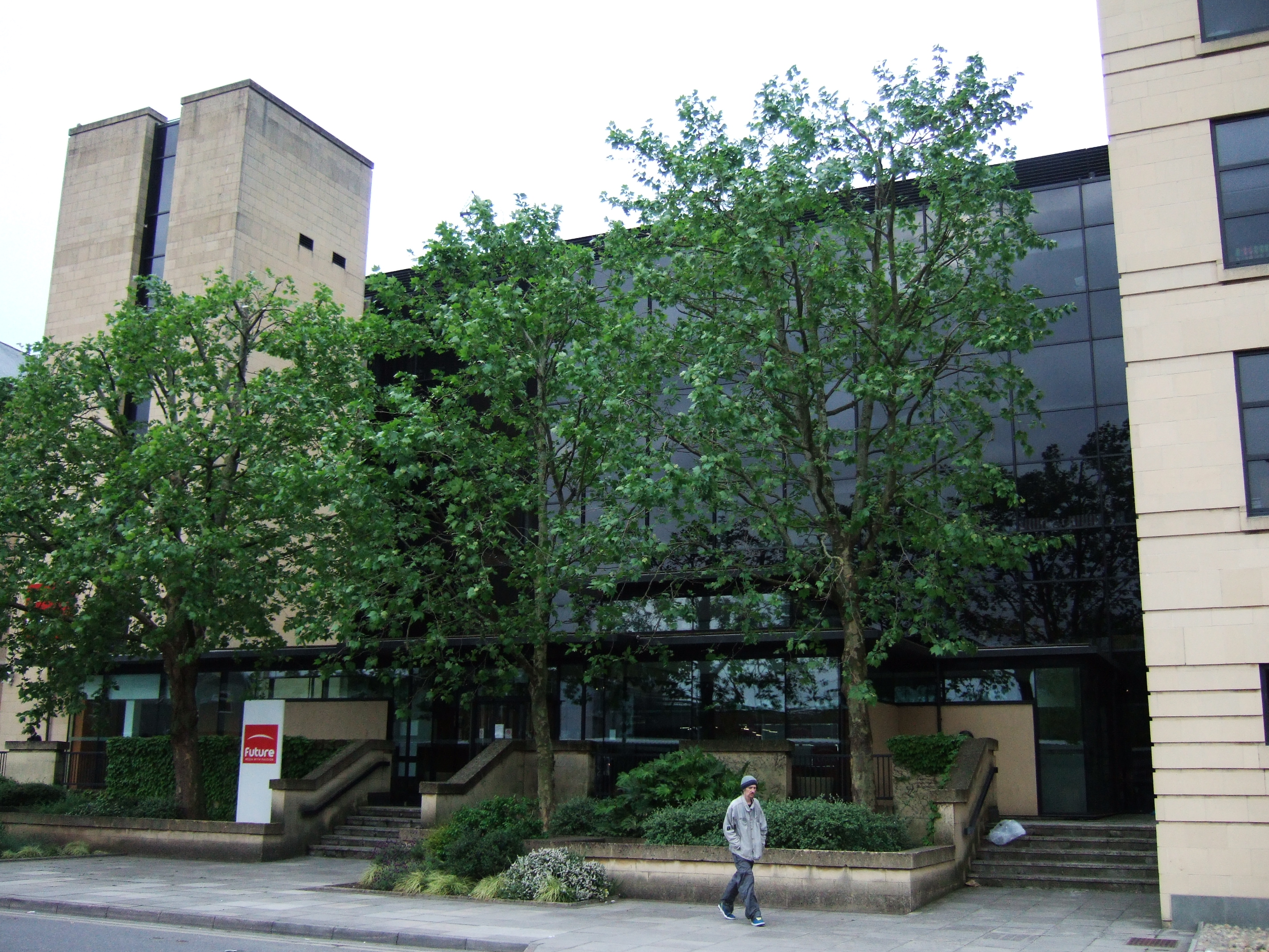 Future offices Bath